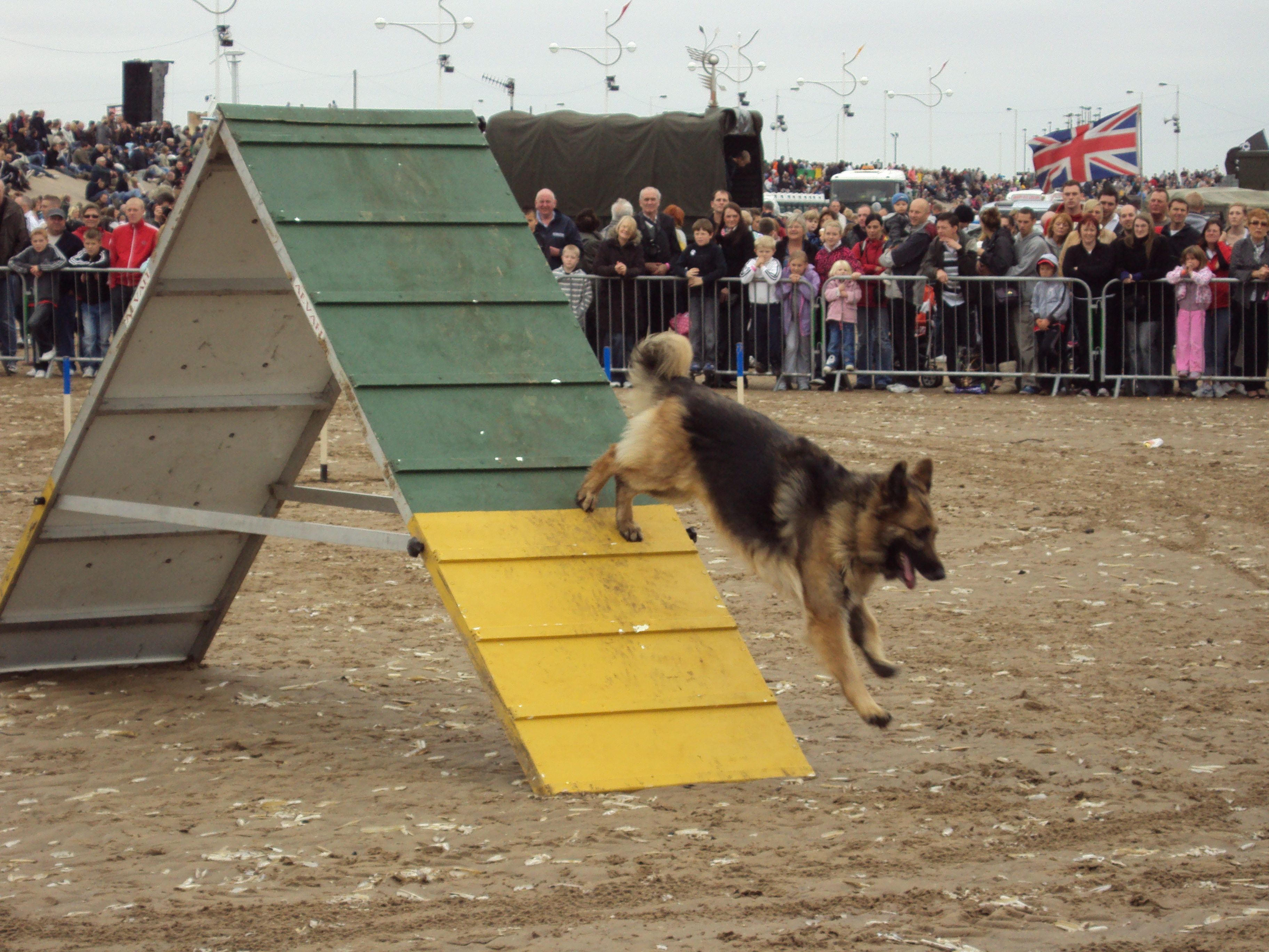 West Lancs dog display team at the 2009 Southport Air Show, Merseyside, England.